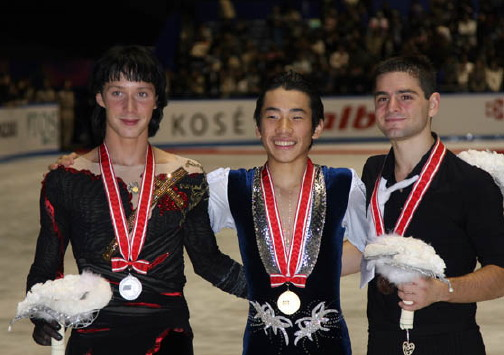 NHK Trophy 2008 mens podium. Johnny Weir (2), Nobunari Oda (1), Yannick Ponsero (3)